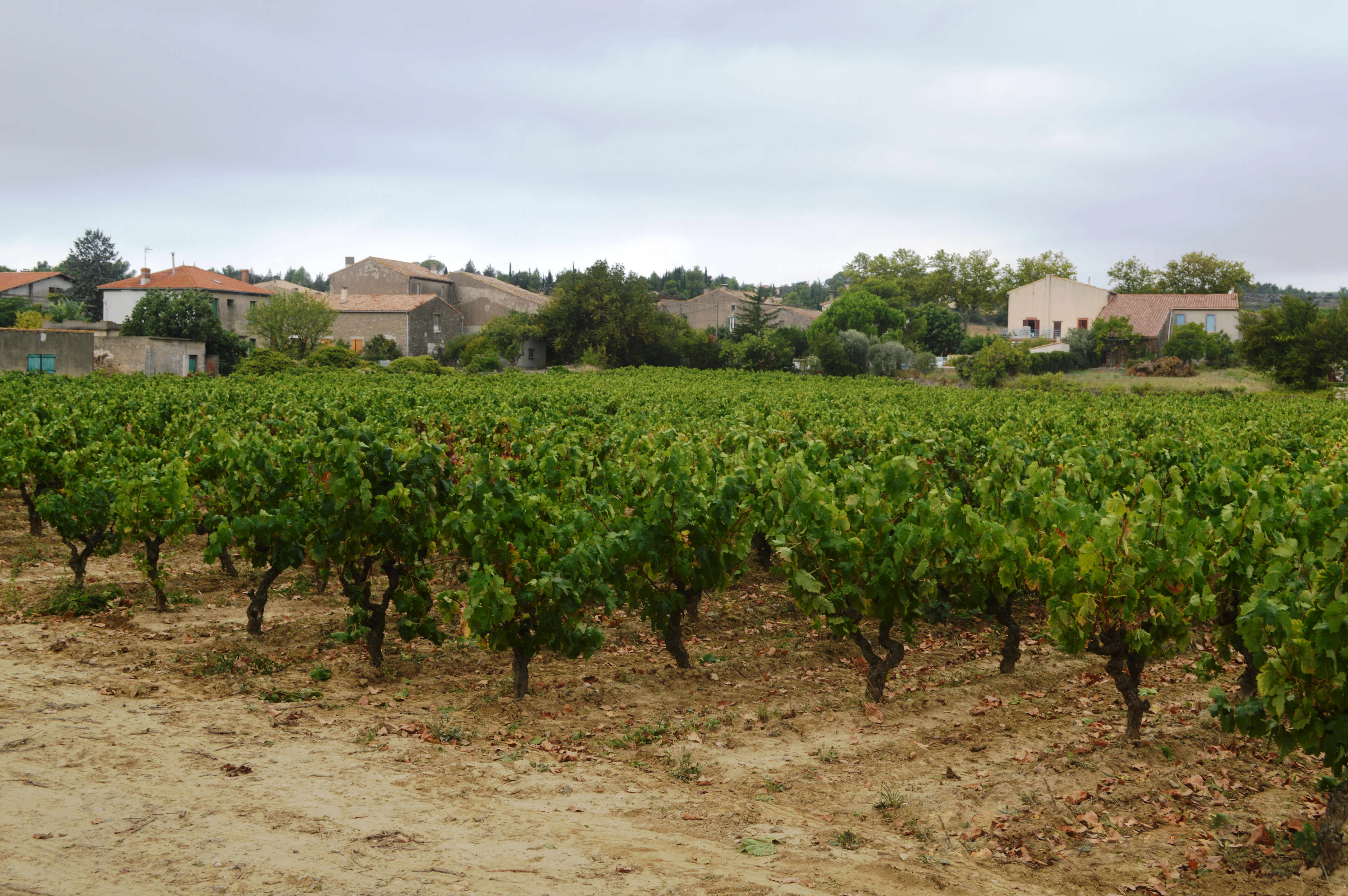 General View of Aigne with Vineyard